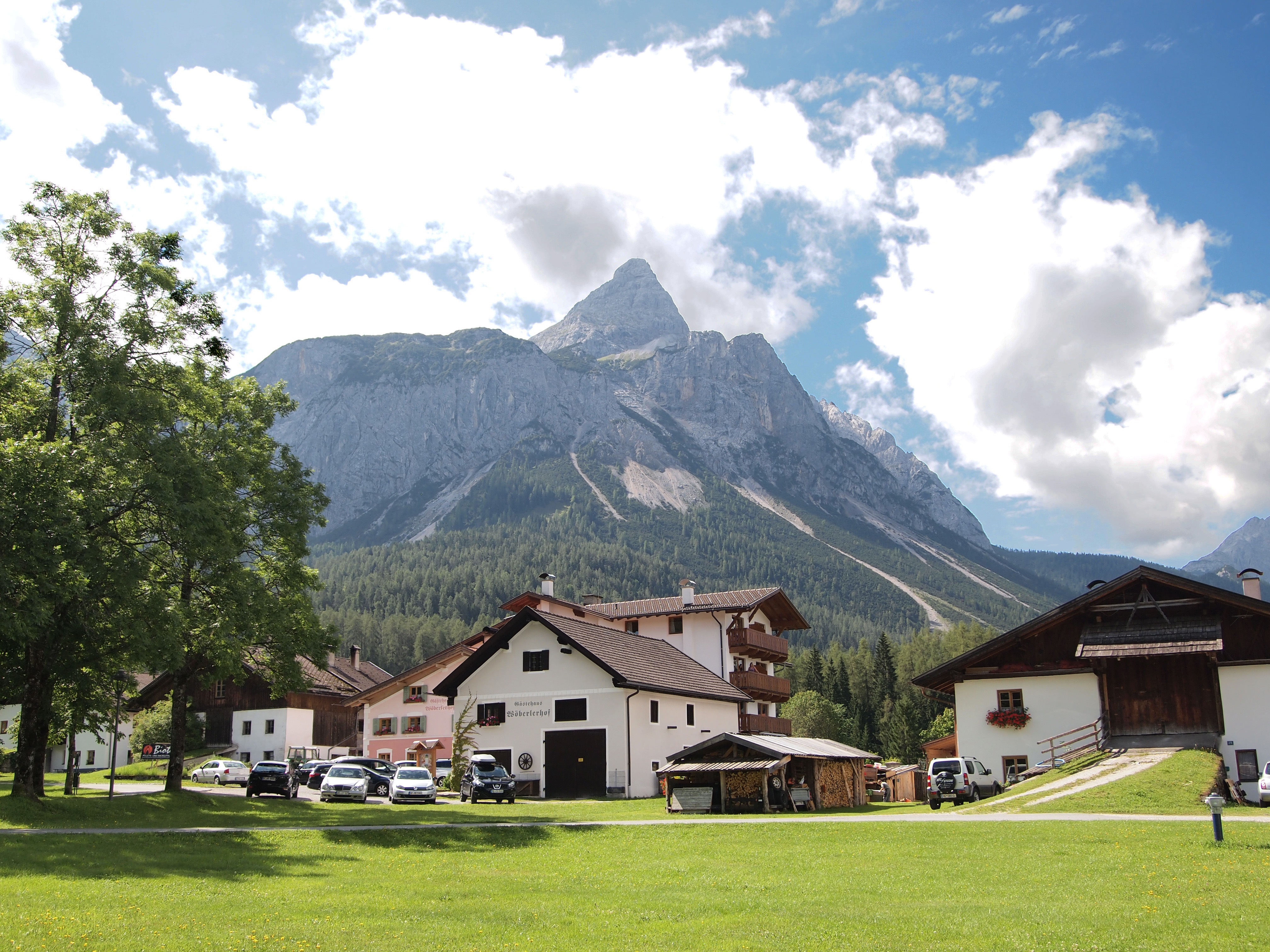 View in Ehrwald, Austria. This photograph was taken with a Olympus E-PL1.